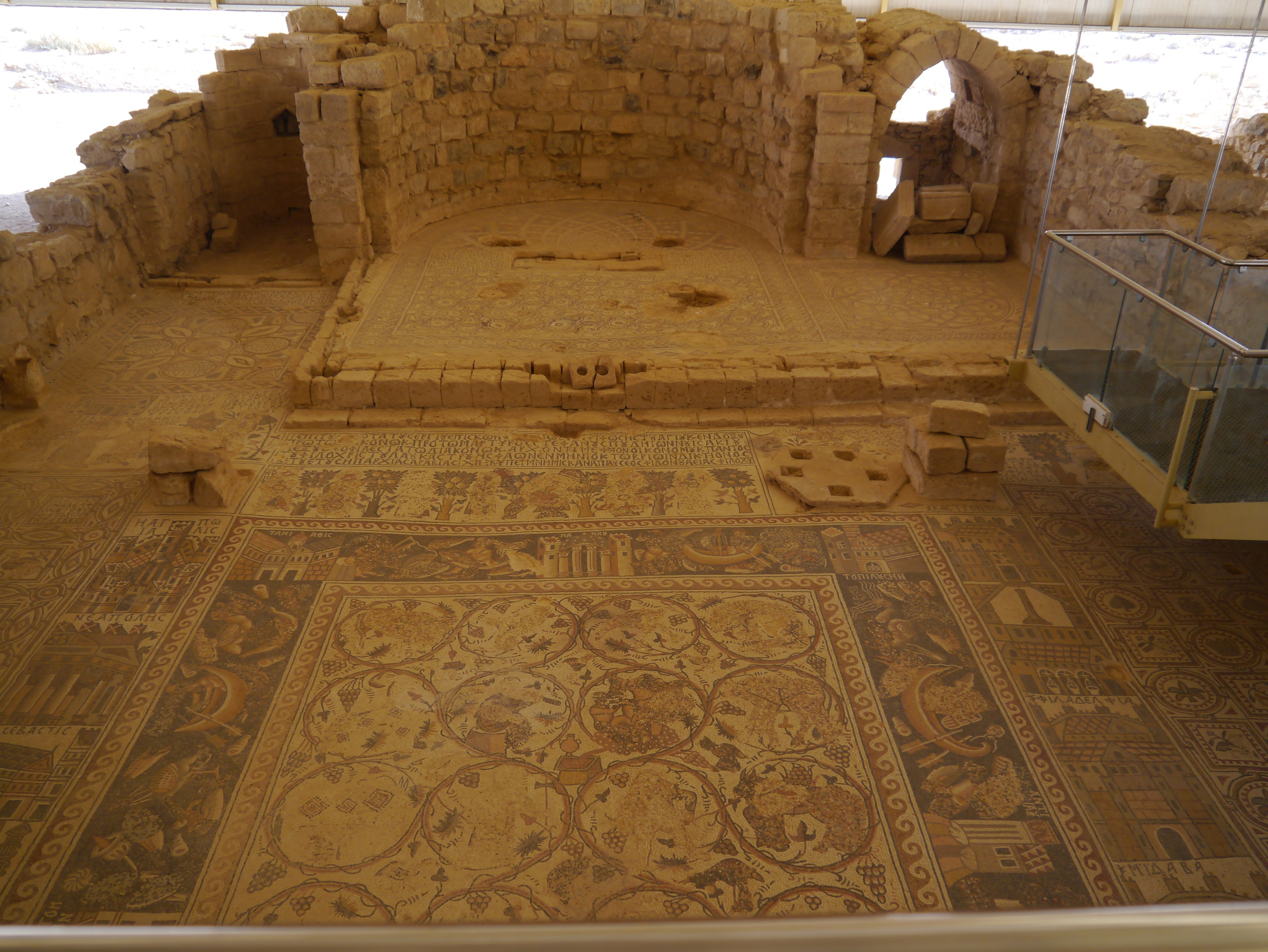 Mosaics of St. Stephen, Umm ar-Rasas, North western Jordan